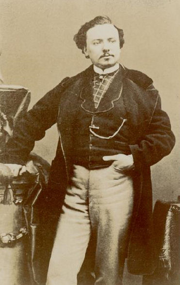 Photographic studio portrait of the French tenor Victor Warot in the 1860s